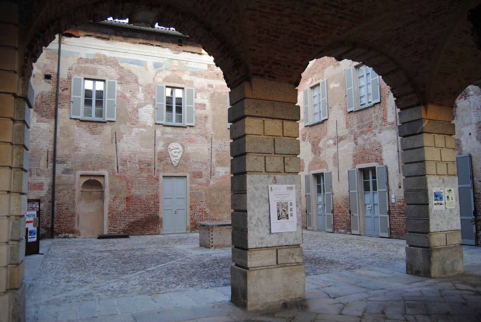 Castello visconteo Secondo Cortile Interno